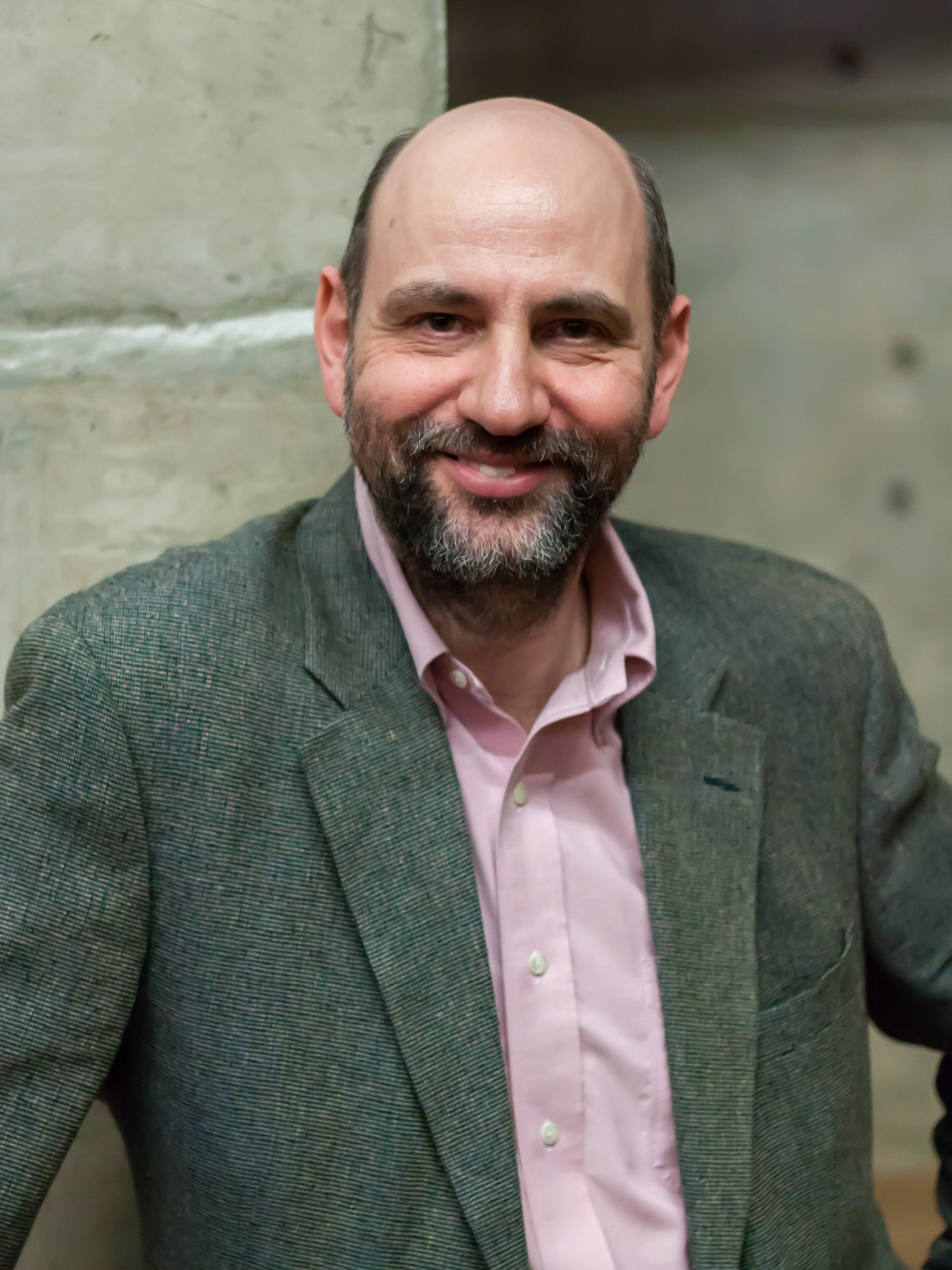 Talk at Institute of Mathematics and Statistics, University of São Paulo, Brazil in 2015